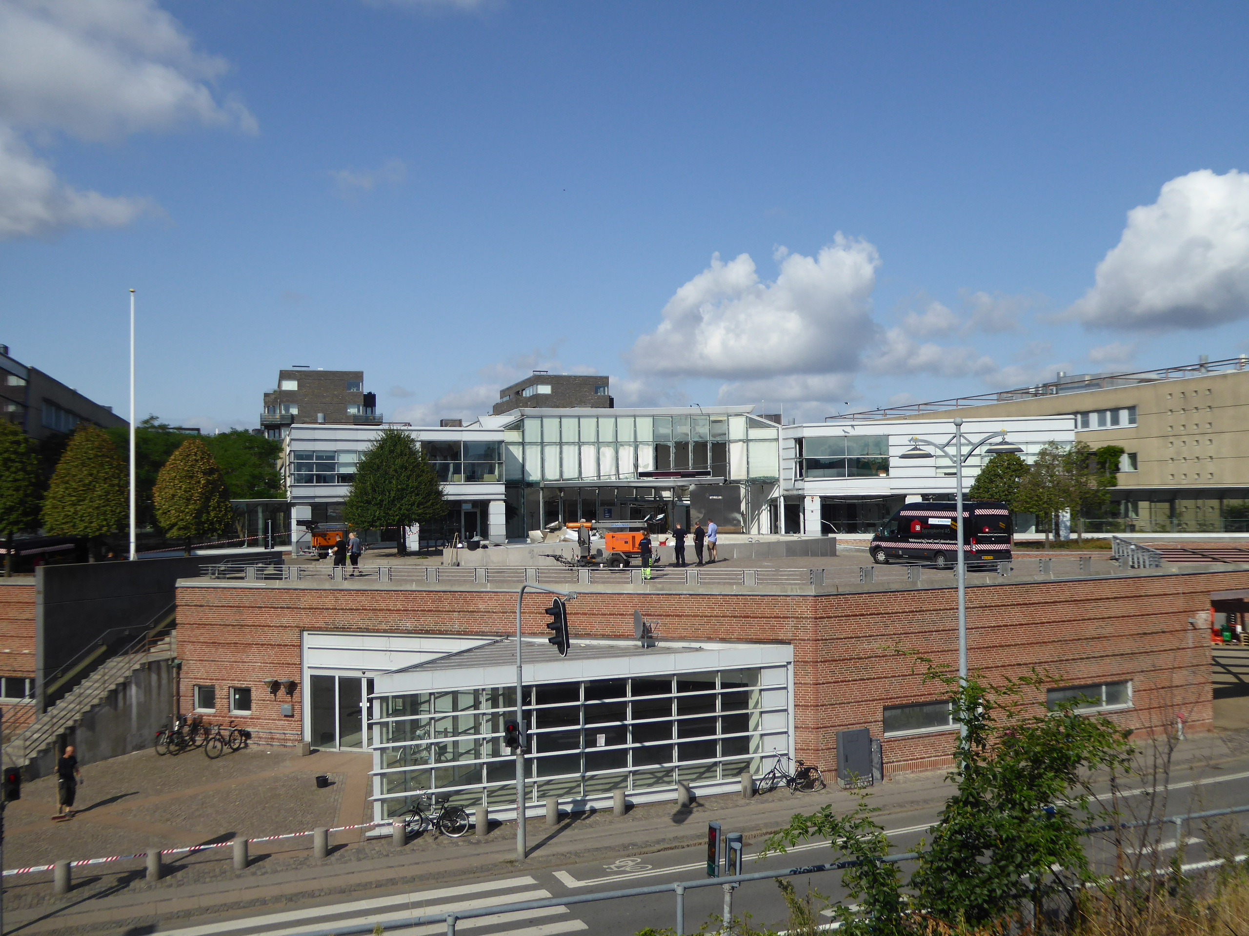 In the evening of 6 May 2019 the Danish Tax Agency (Skattestyrelsen) in Copenhagen was hit by an explosion. The entrance was seriously damaged and multiple windows was shattered. One person was slightly injured by fragments.